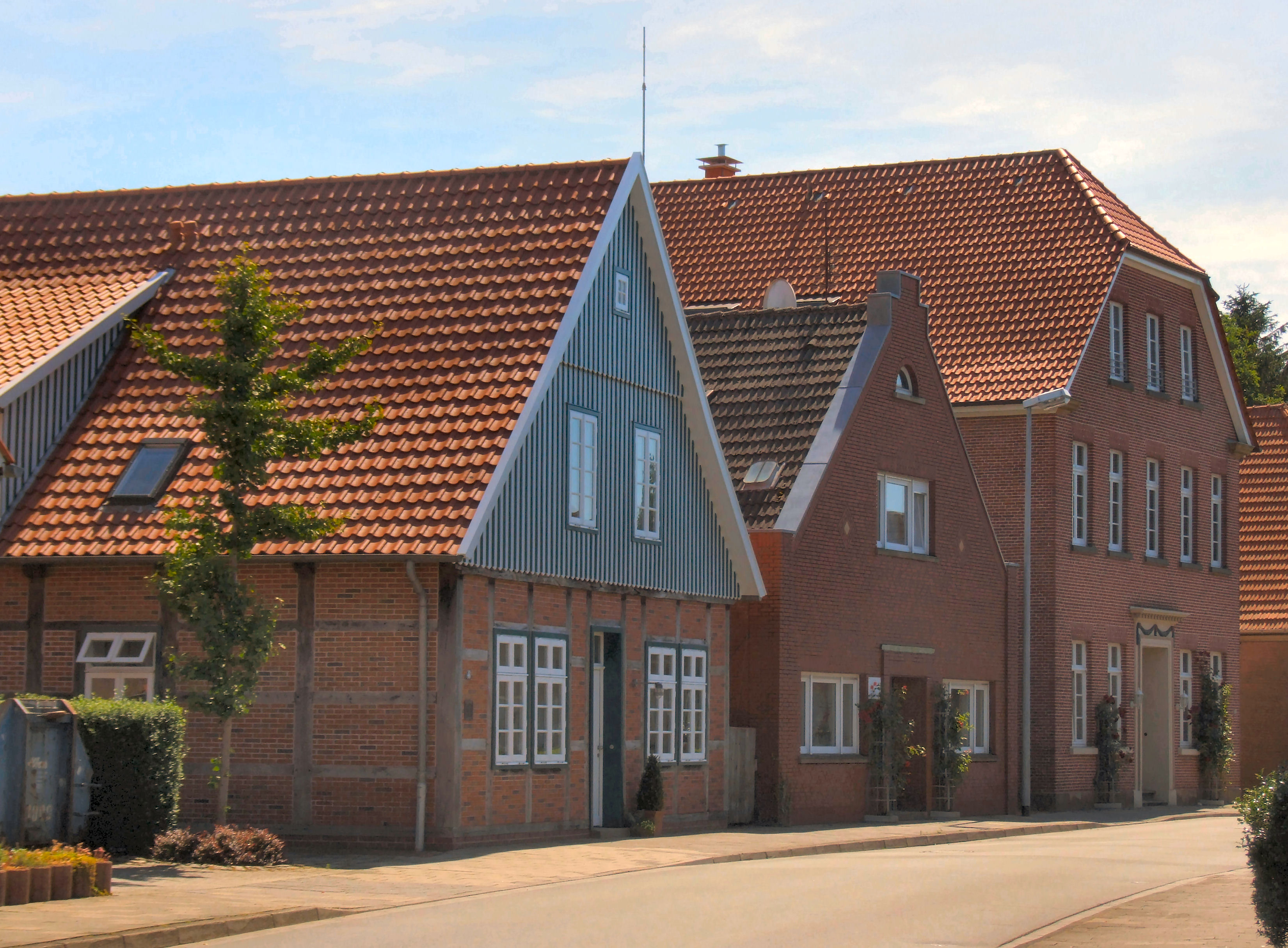 St. Antonionort, Quakenbrück